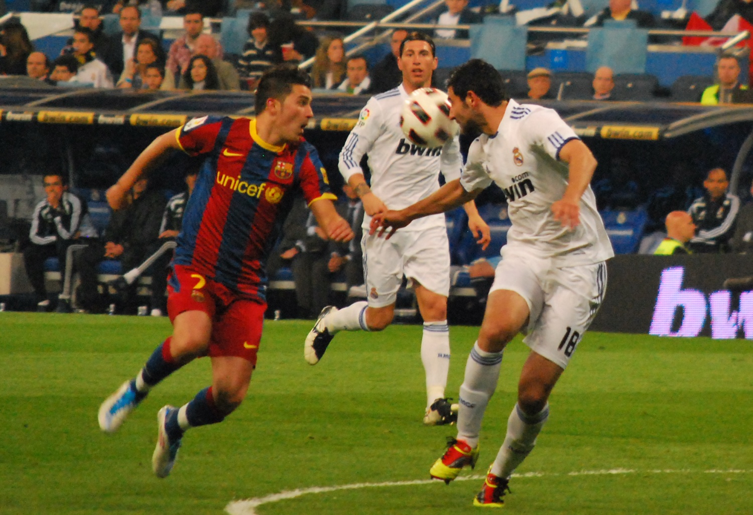 El Clásico